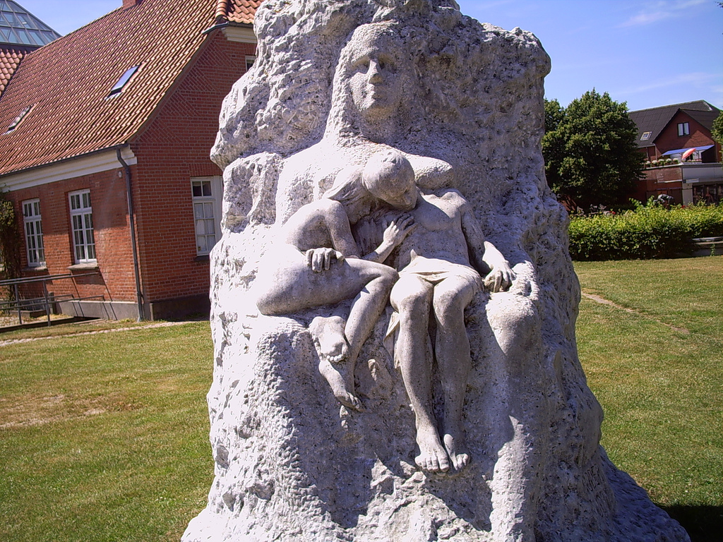 Photo of a statue titled "Moder Jord", depicting Jörð.